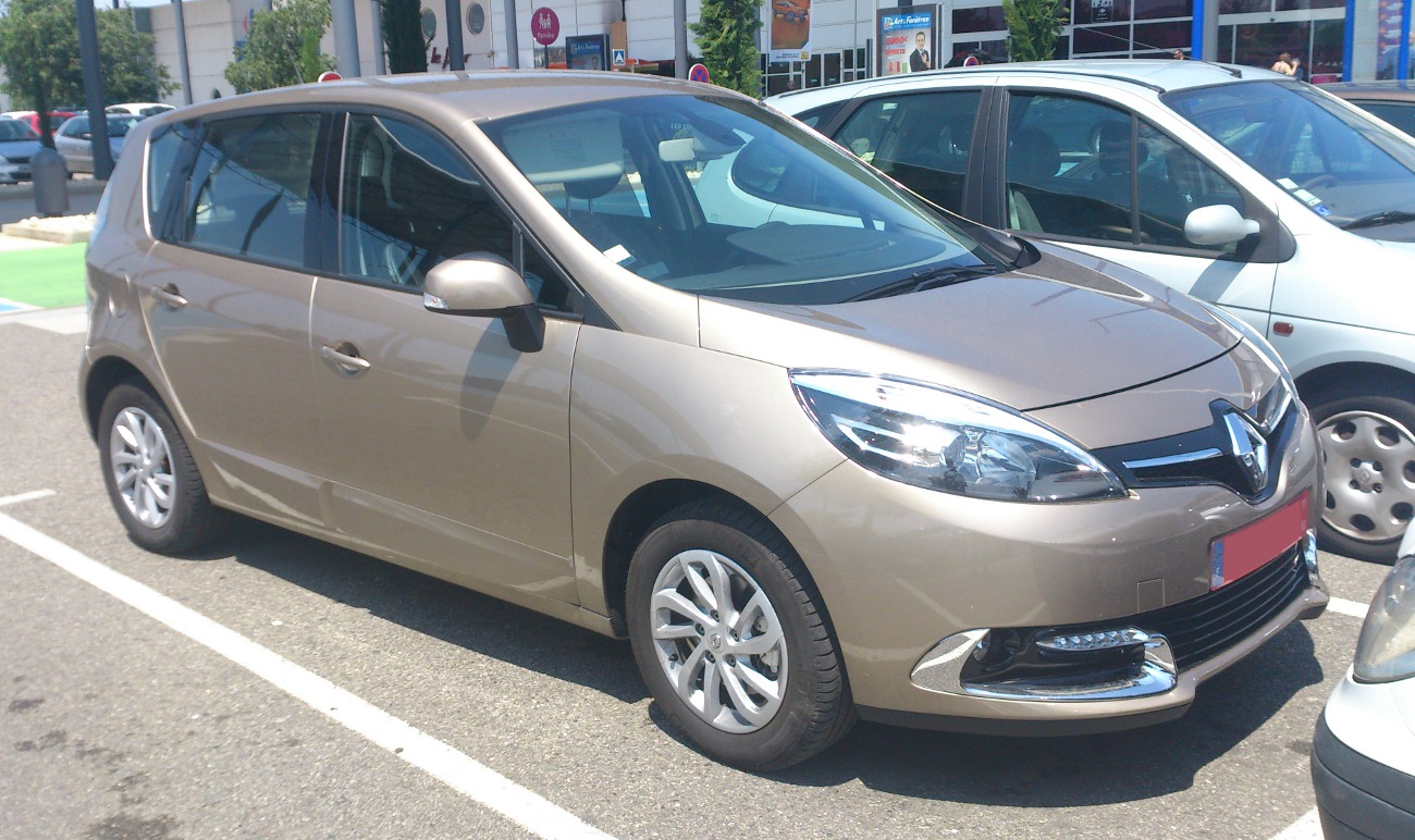 Renault Scénic III facelift II photographed in Montélimar, France.